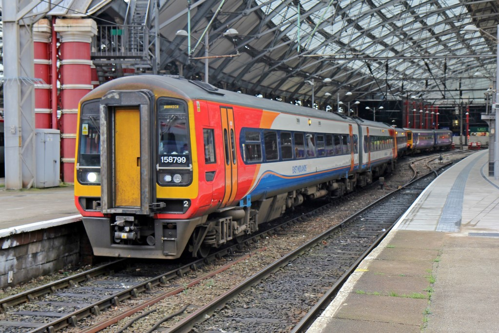 East Midlands Trains Class 158, 158799, Liverpool Lime Street railway station